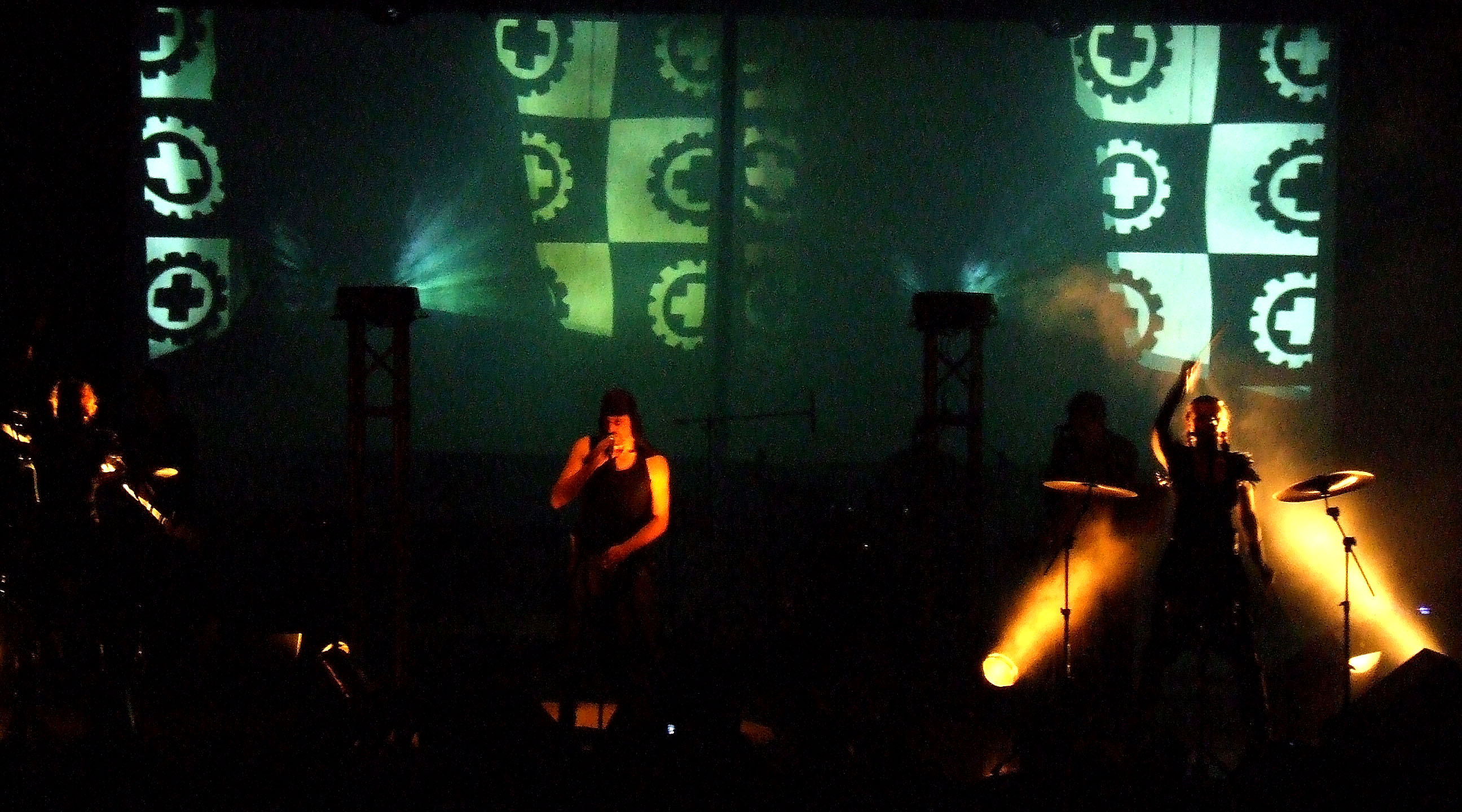 Laibach performing in Celje, Old Castle/Tanz mit Laibach